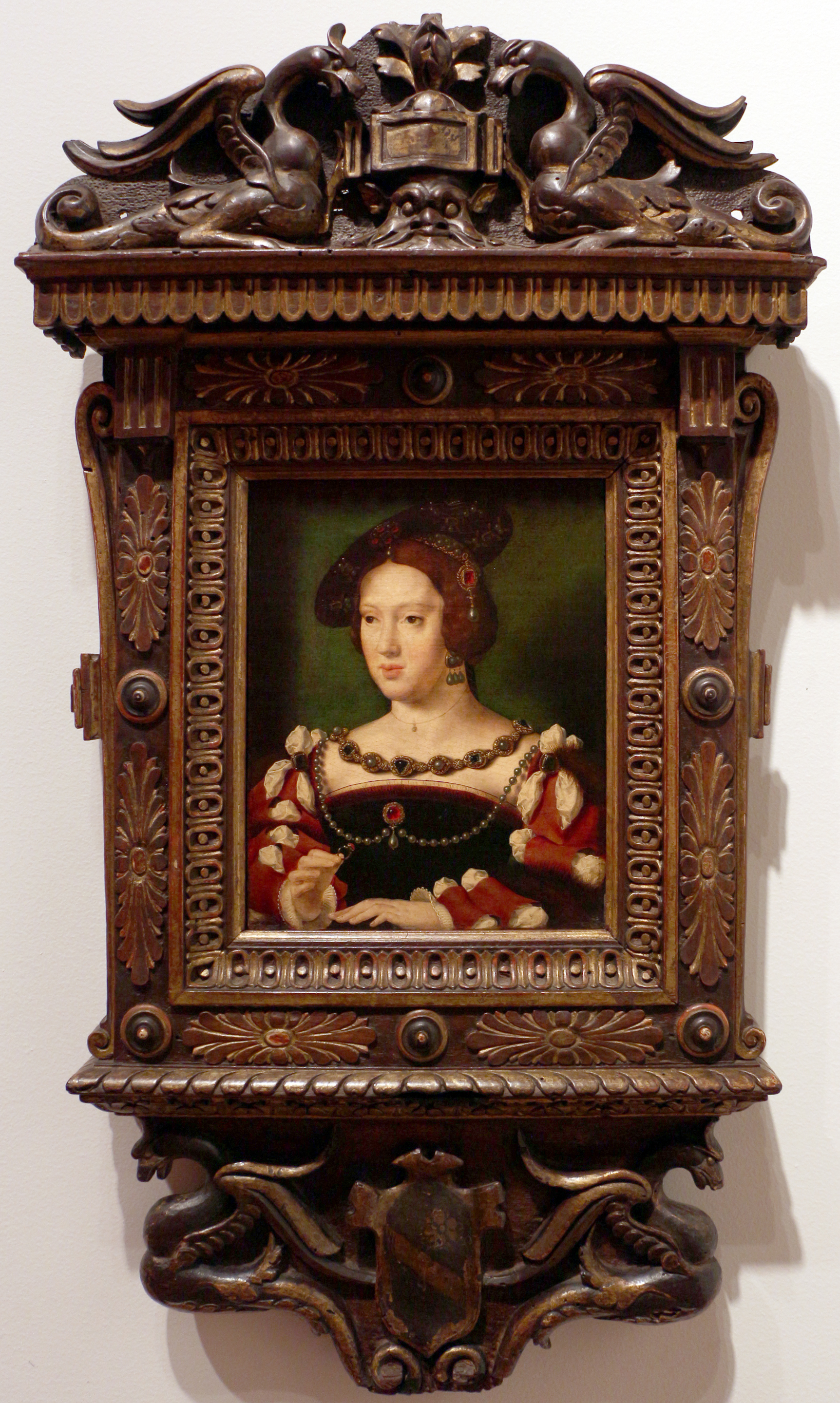 Flemish paintings in the Museu Nacional de Arte Antiga